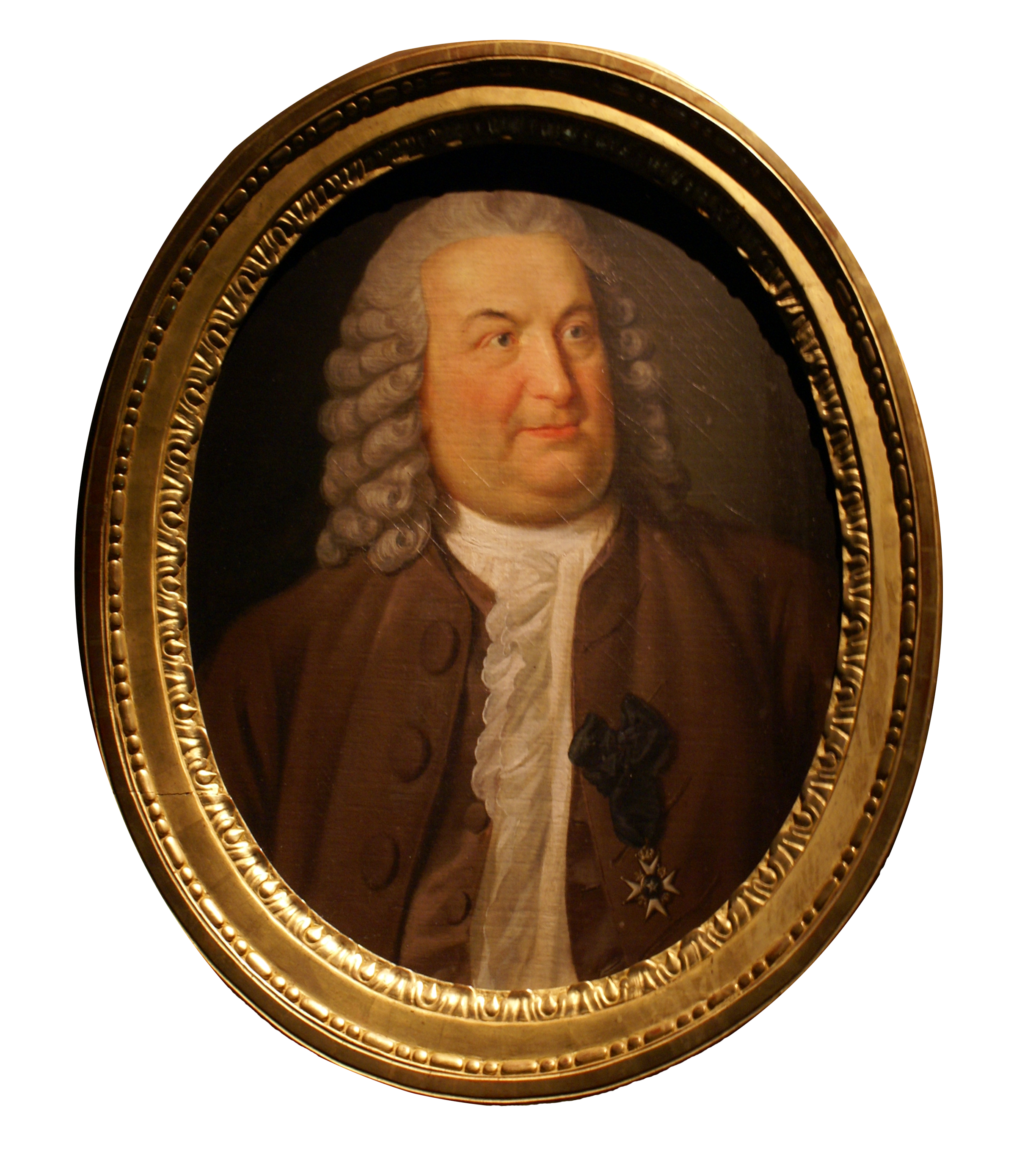 Portrait of Albrecht von Haller. The order he received in 1776 was added later to the painting.